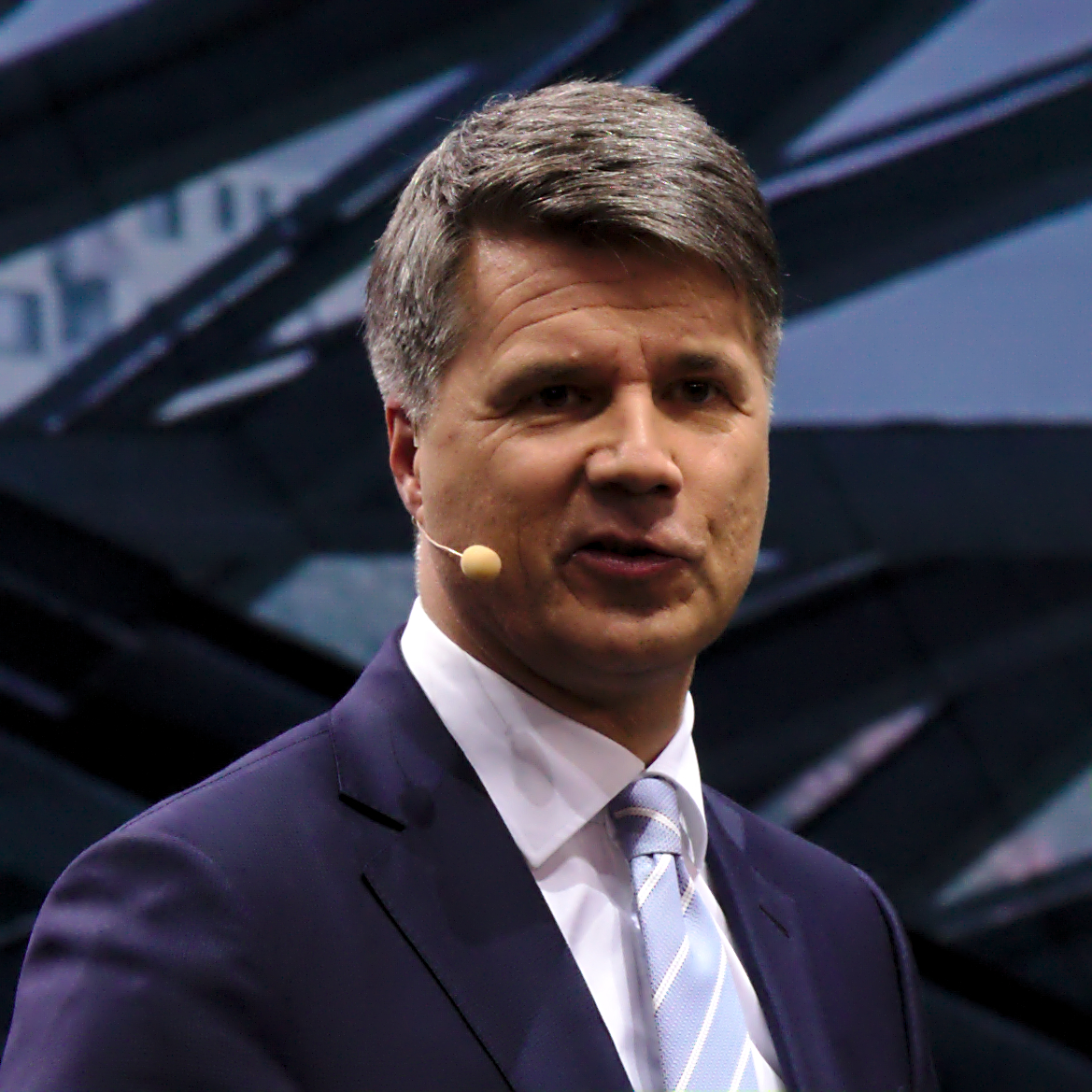 Harald Krueger at Geneva Motorshow 2018